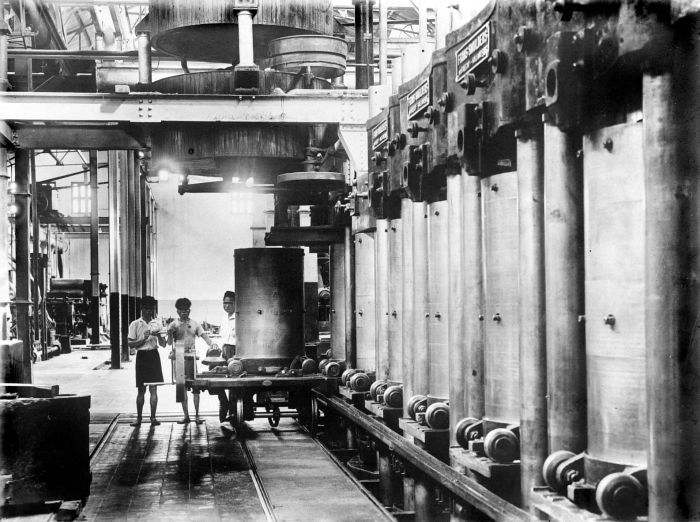 The press and wring station of the Mexolie palmoil-factory in Rangkas Bitung, Java